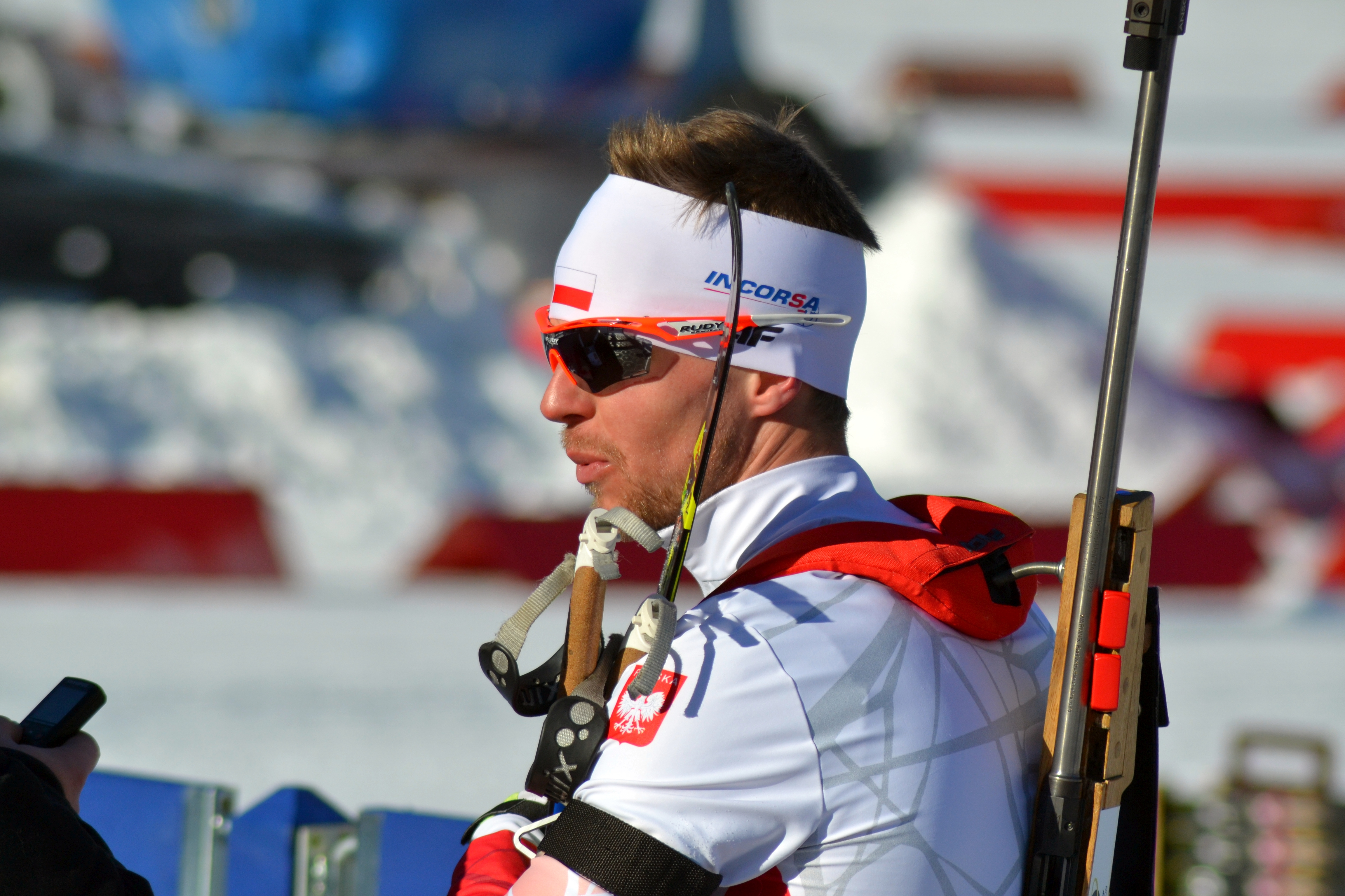 Open European Championships Biathlon 2017, Sprint Mens race.